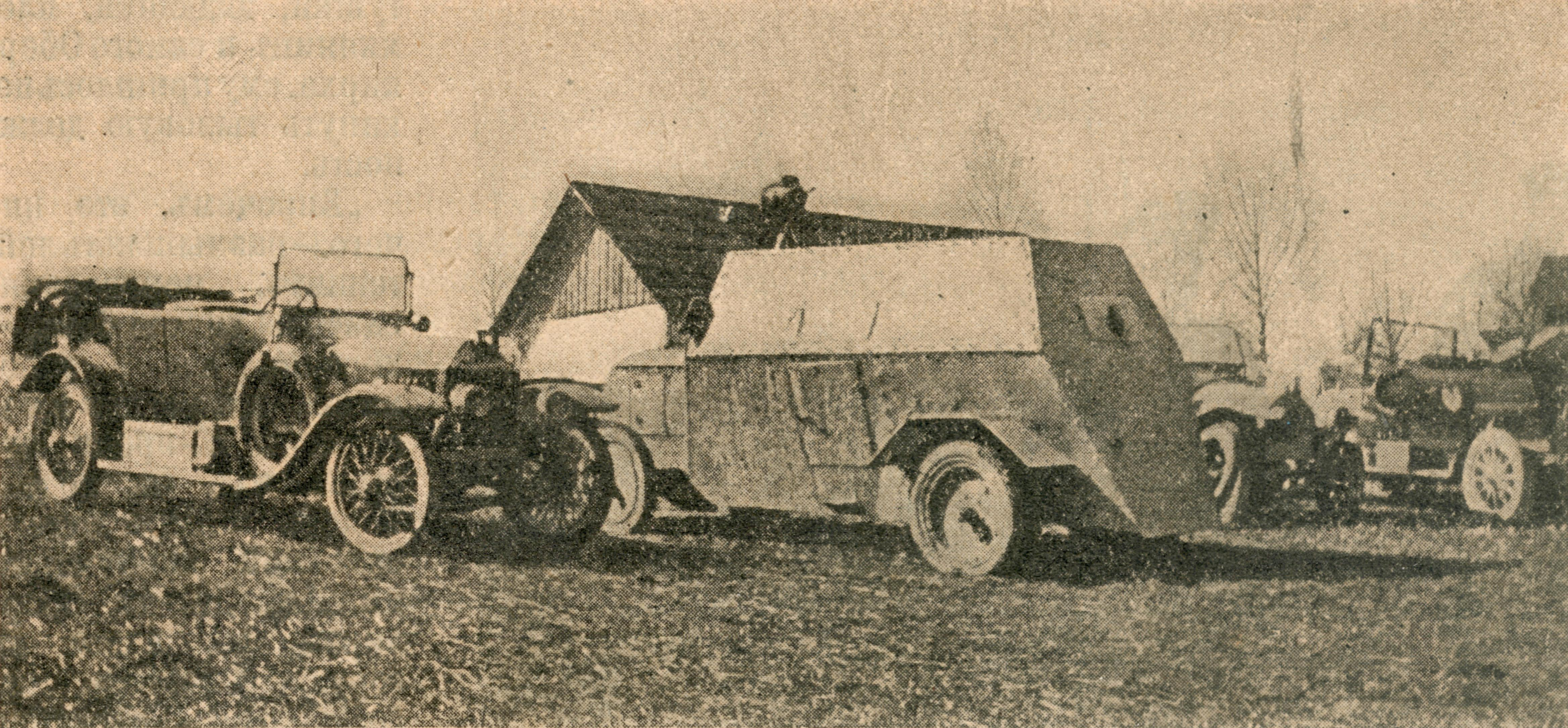 Russo-Balt armoured car and car of the Caucasian Native Division. 1916